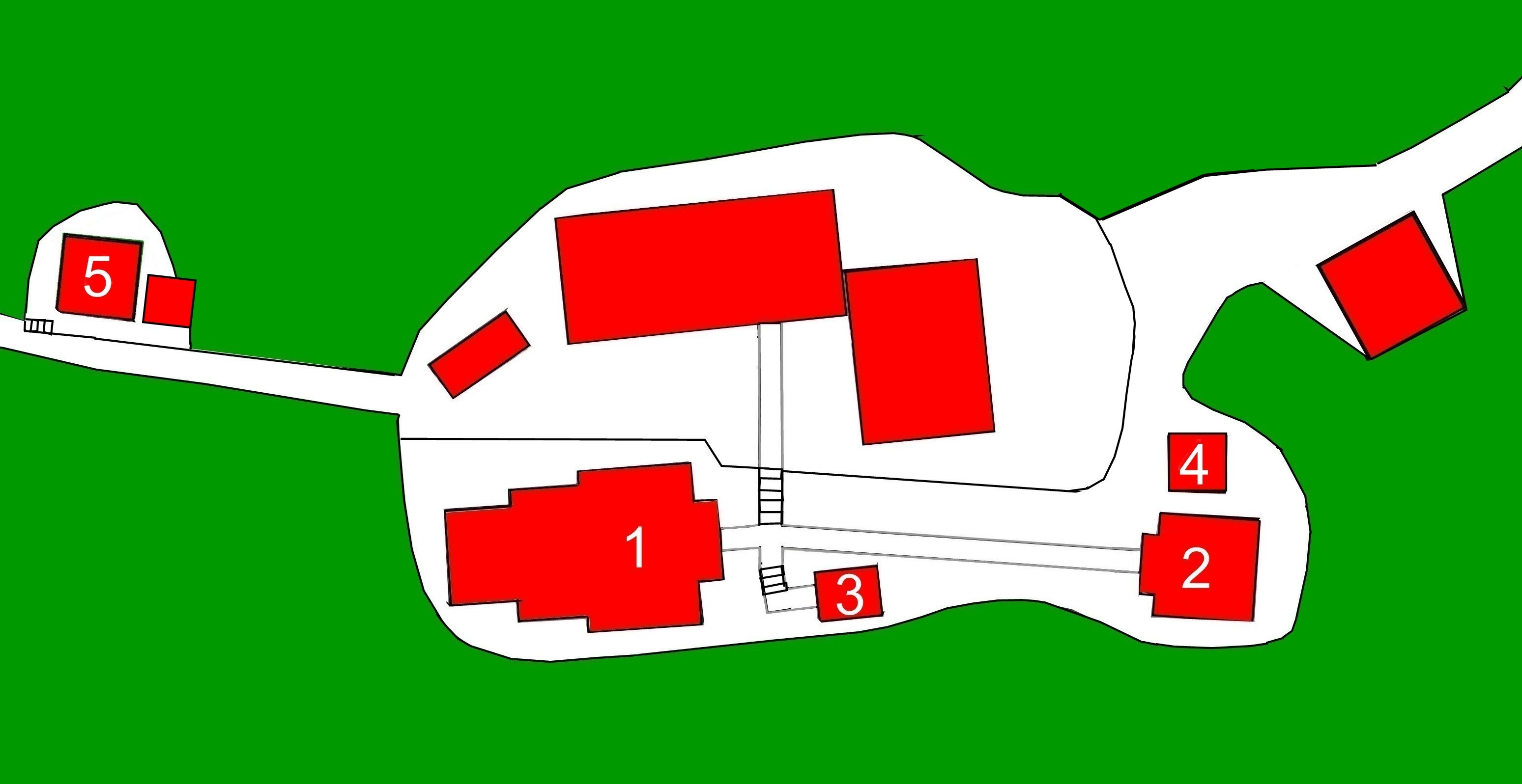 Layout of Yokomine-ji temple, Muroto, Japan